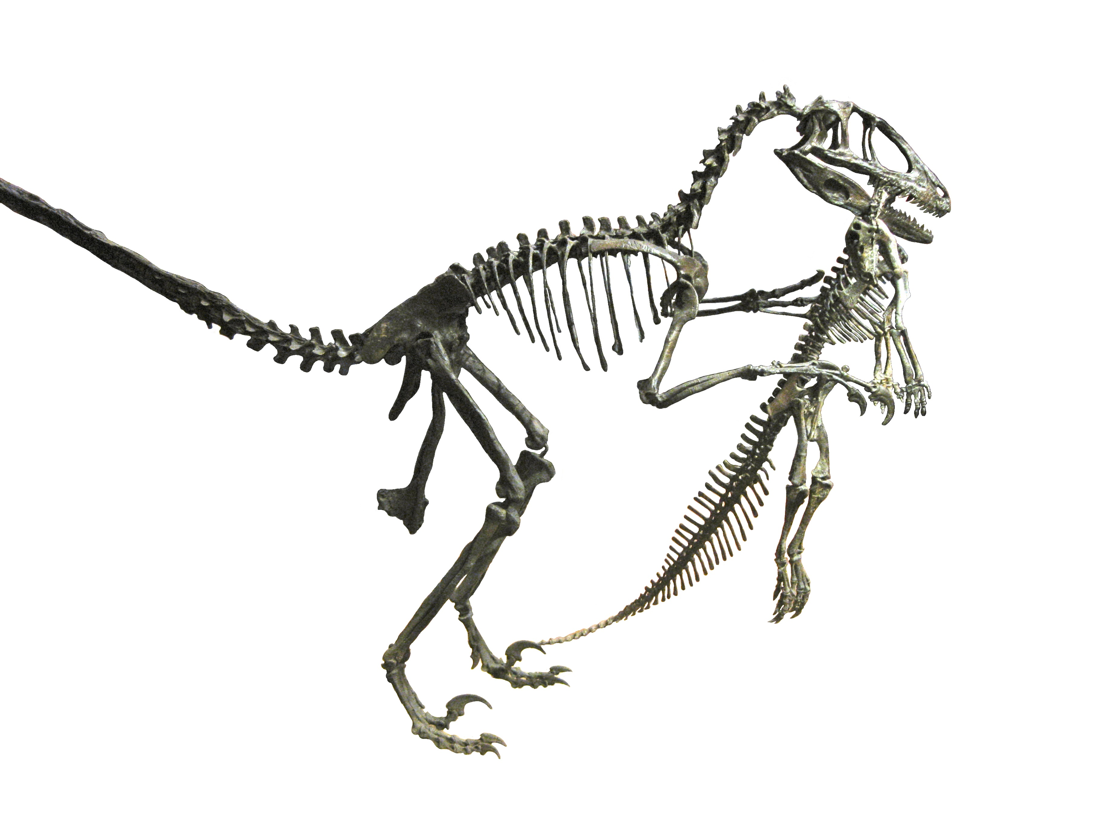 Skeleton of the dromaeosaurid dinosaur Deinonychus with baby Tenontosaurus at Oklahoma Museum of Natural History, Norman.